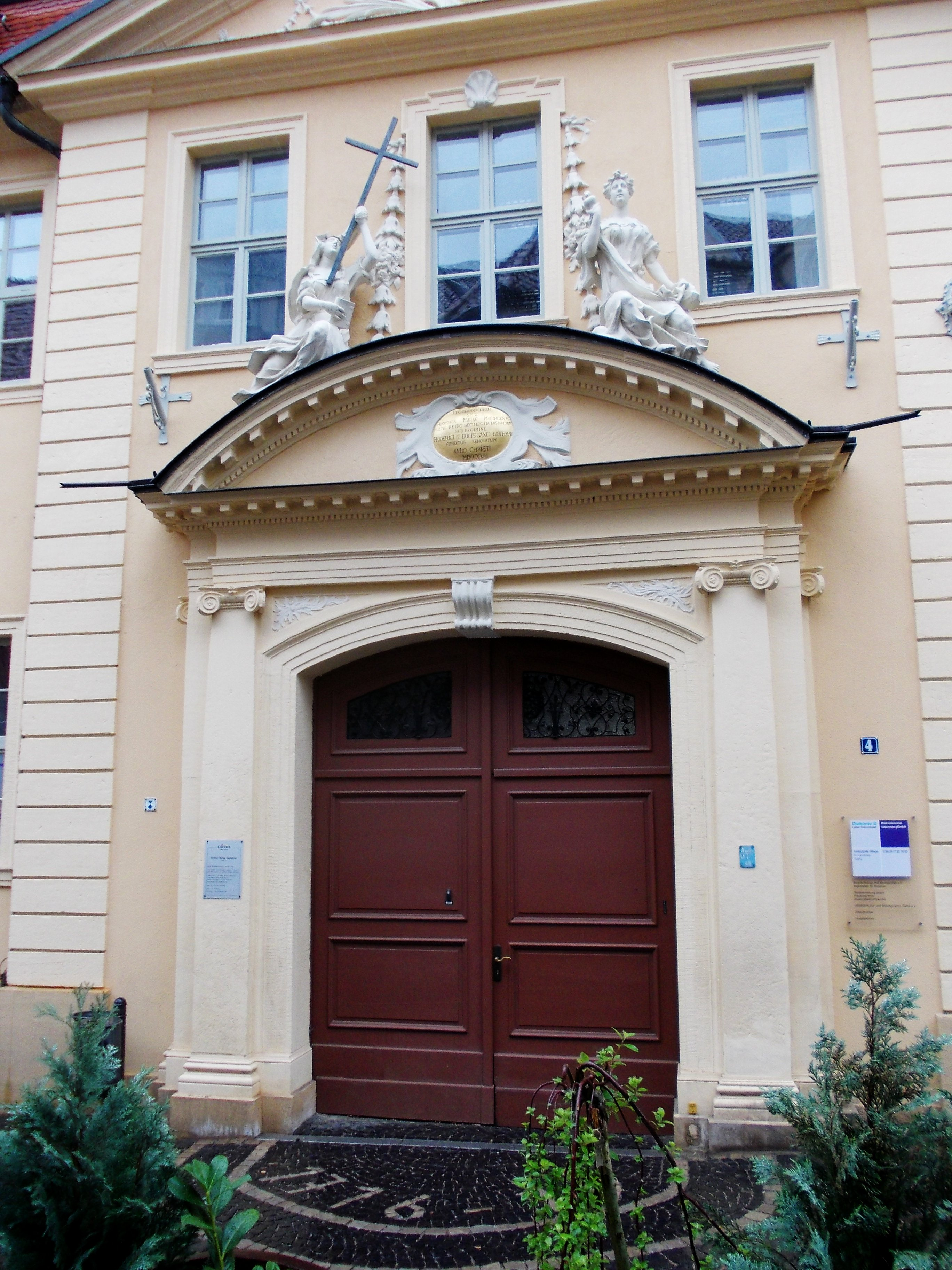 Portal of the former Hospital Mariae Magdalenae in Gotha (Thuringia)